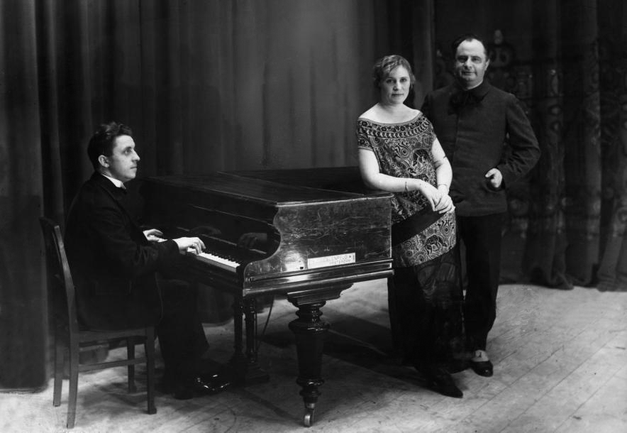 Dutch jourmalist, singer and comedian Jean-Louis Pisuisse (1880-1927) at his grand piano. The photograph is partly touched up / repainted to make the object on the grand piano disappear.